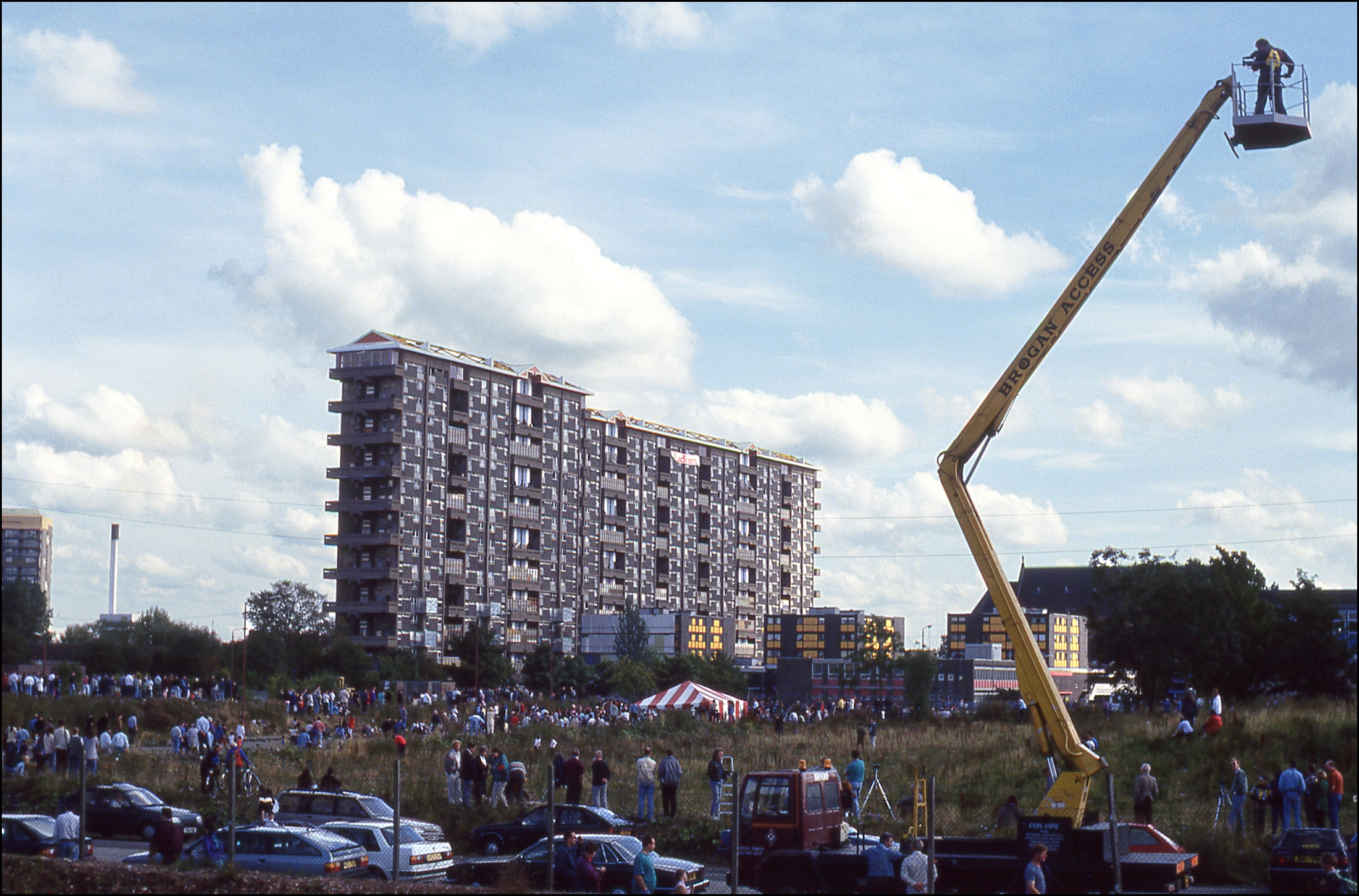 Demolition of the Queen Elizabeth Square flats in Hutchesontown, a district in the city of Glasgow, Scotland